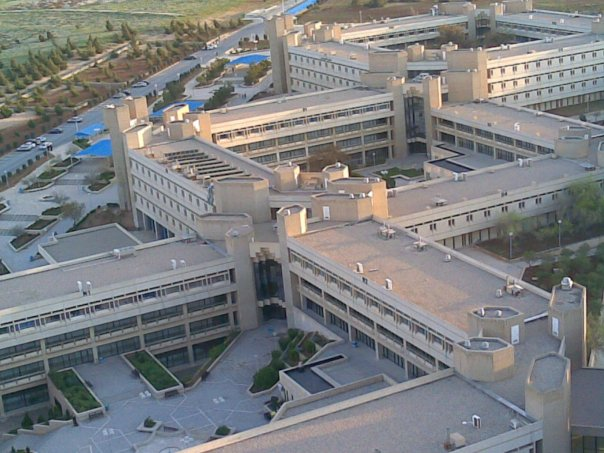 Jordan University of Science and Technology